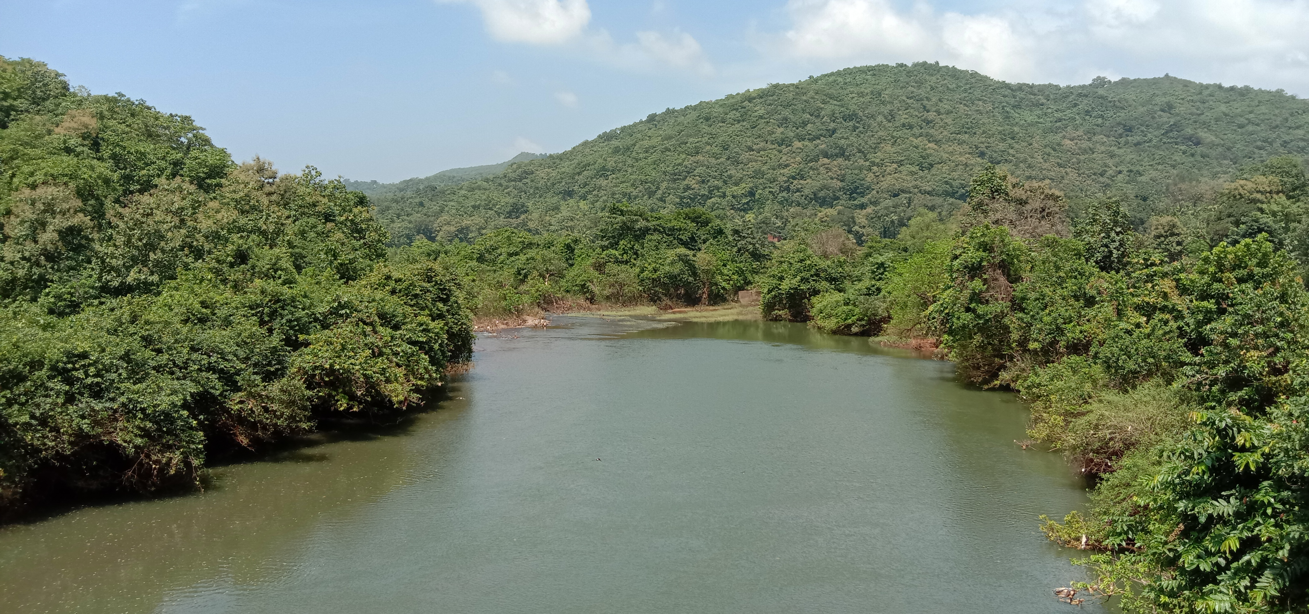 It is a river surrounded by beautiful green mountains near Bandhtivare village in Dapoli, Maharashtra. The photo is taken from the bridge on the road to Tadil.